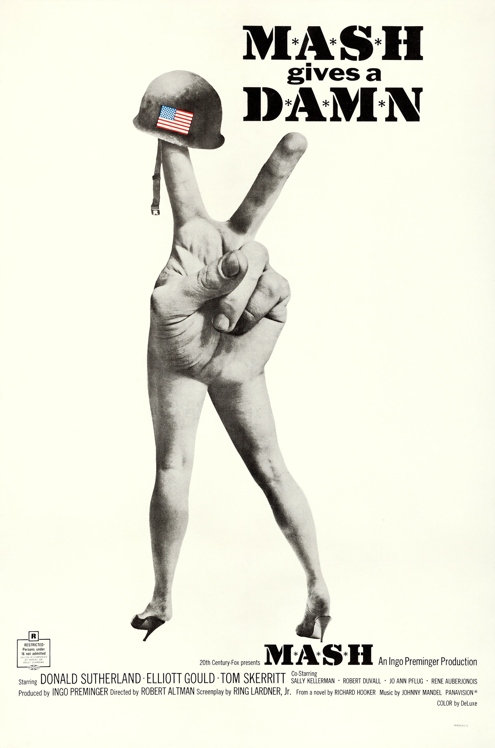 Theatrical release poster for the 1970 black comedy–war film M*A*S*H. The caption "M*A*S*H Gives a Damn" refers to the Ratings Administration taking issue with the film's frequent use of the word. This was the first version of the poster, followed by a similar version with review blurbs published later in the year. Unlike the "Gives a Damn" poster, the later version carried a copyright notice.